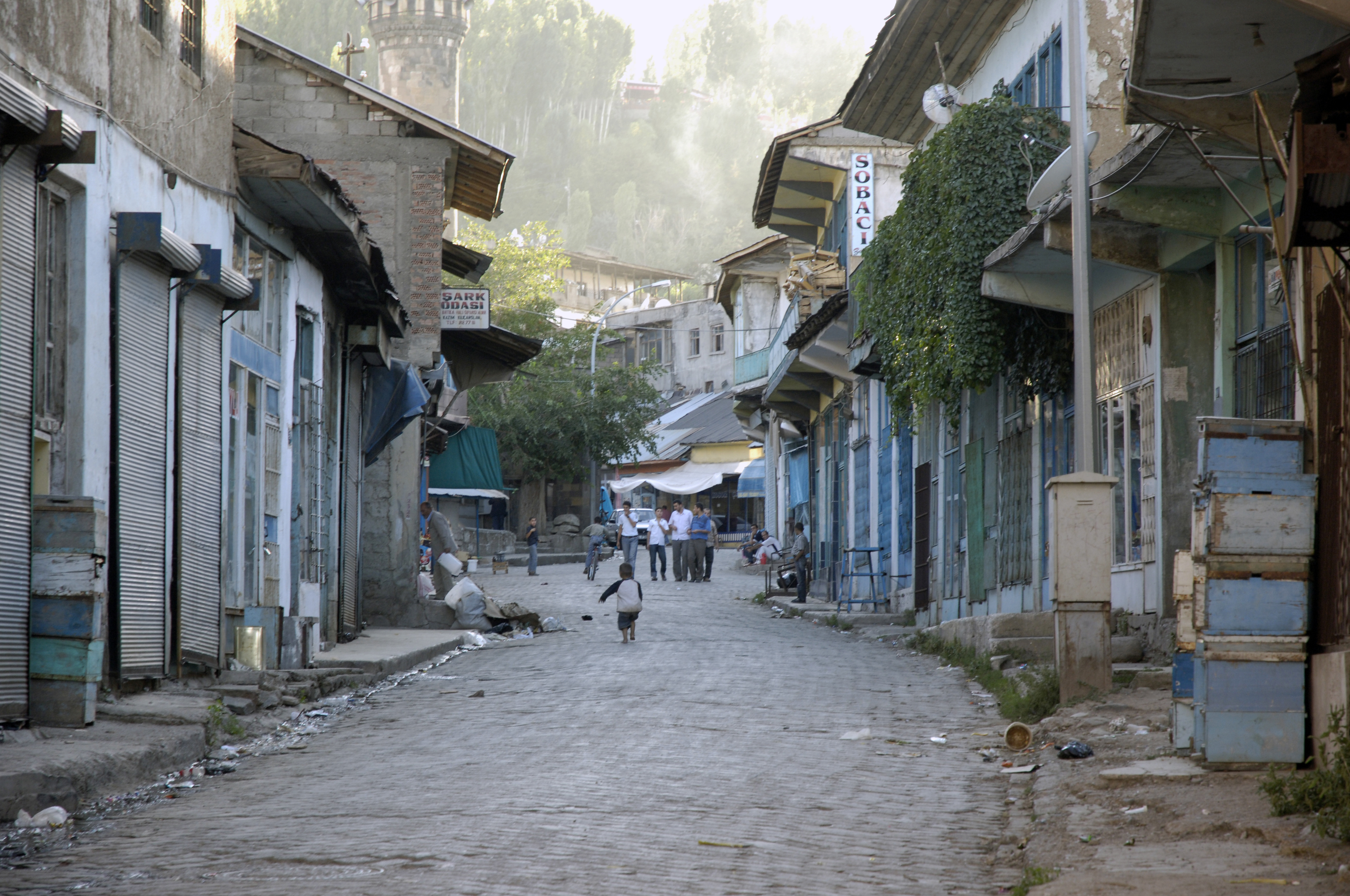 From street views I think the road is no longer cobbled, but the general impression seems not to have changed too much from this older picture.